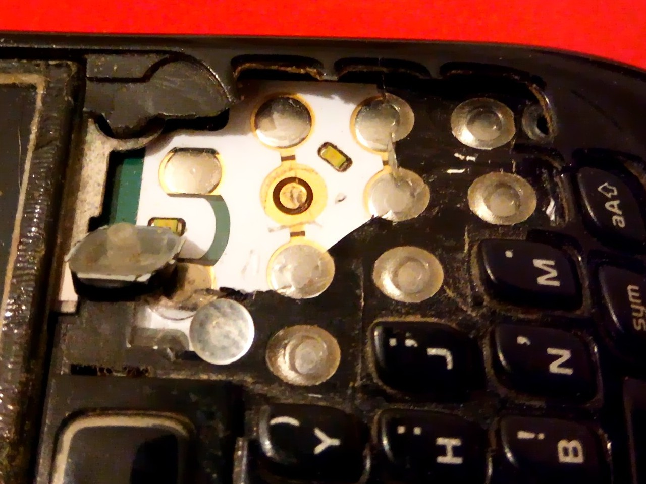 mechanical keyboard Blackberry 8520, cut in layers